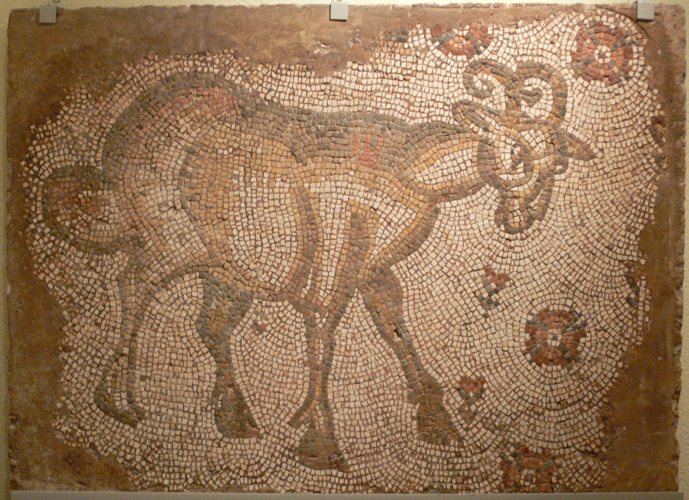 Mosaic of a fat-tailed sheep (ca 475 AD) from an early Christian Church near Antioch. Part of the same Paradise scene are in Copenhagen, Hanover and Paris. Amsterdam, Allard Pierson Museum, inv. n° 9850.